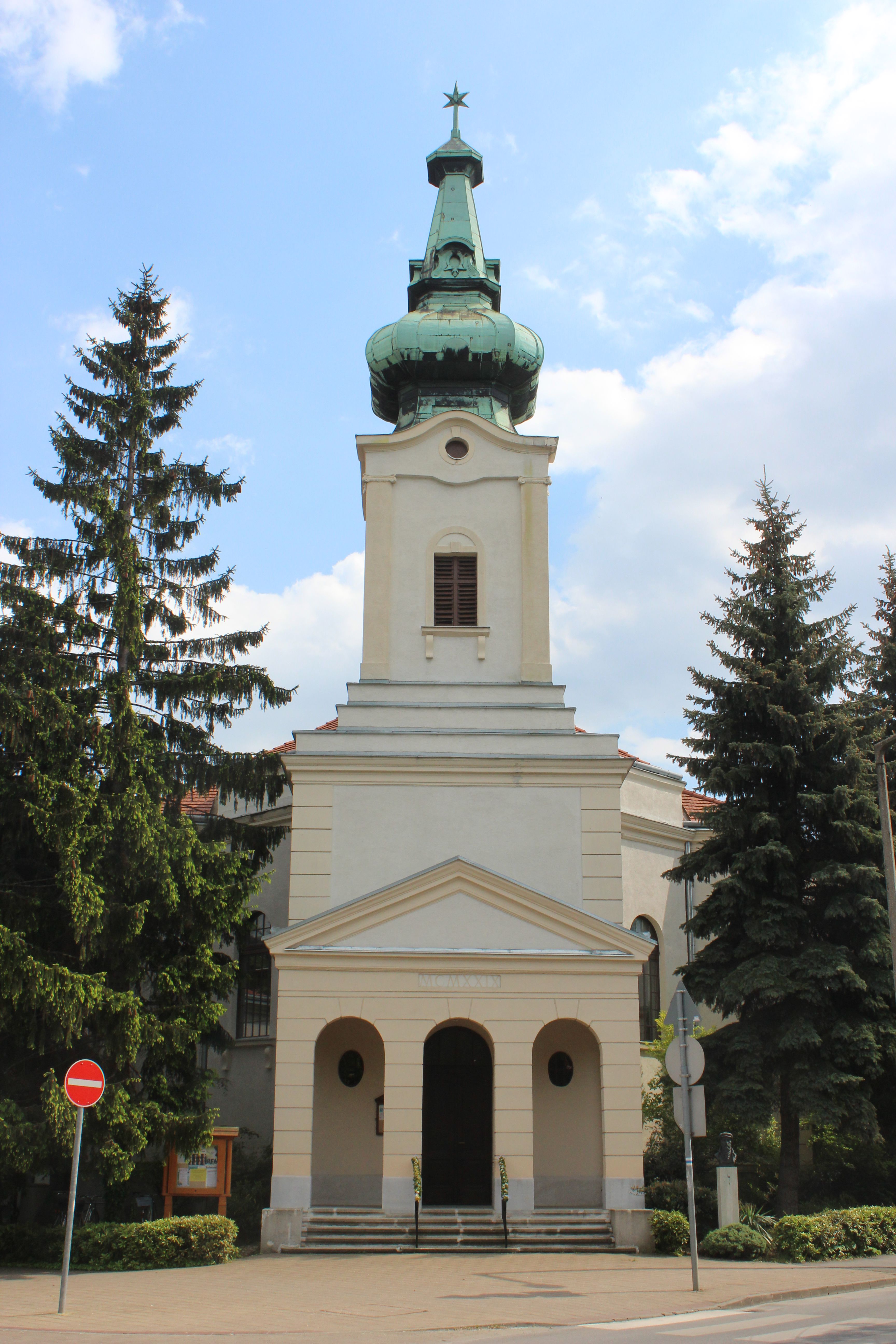 Reformed Church (Sopron, Hungary)